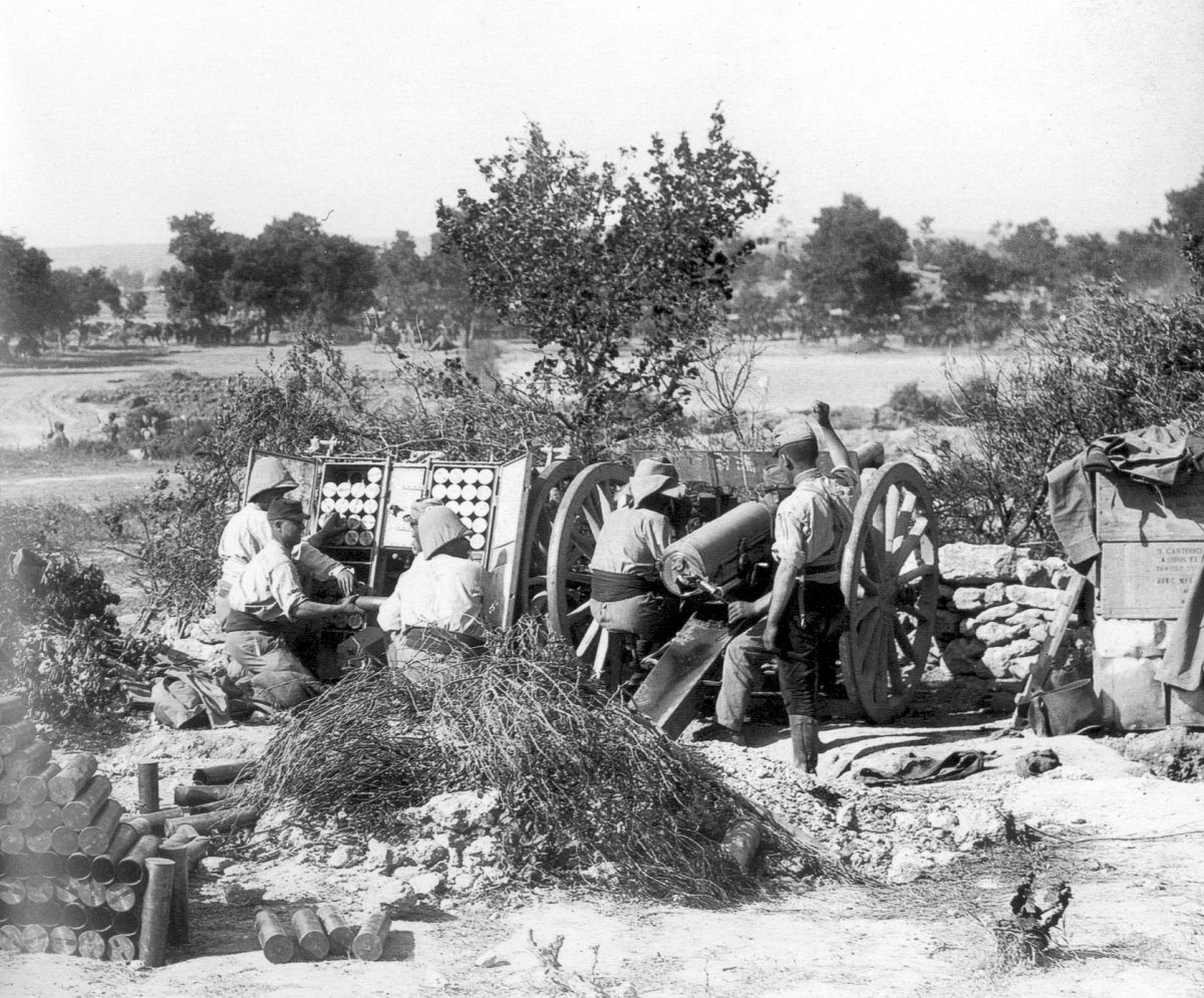 A French Colonial 75 mm artillery gun in action near Sedd el Bahr at Cape Helles, Gallipoli during the Third Battle of Krithia, 4 June 1915.